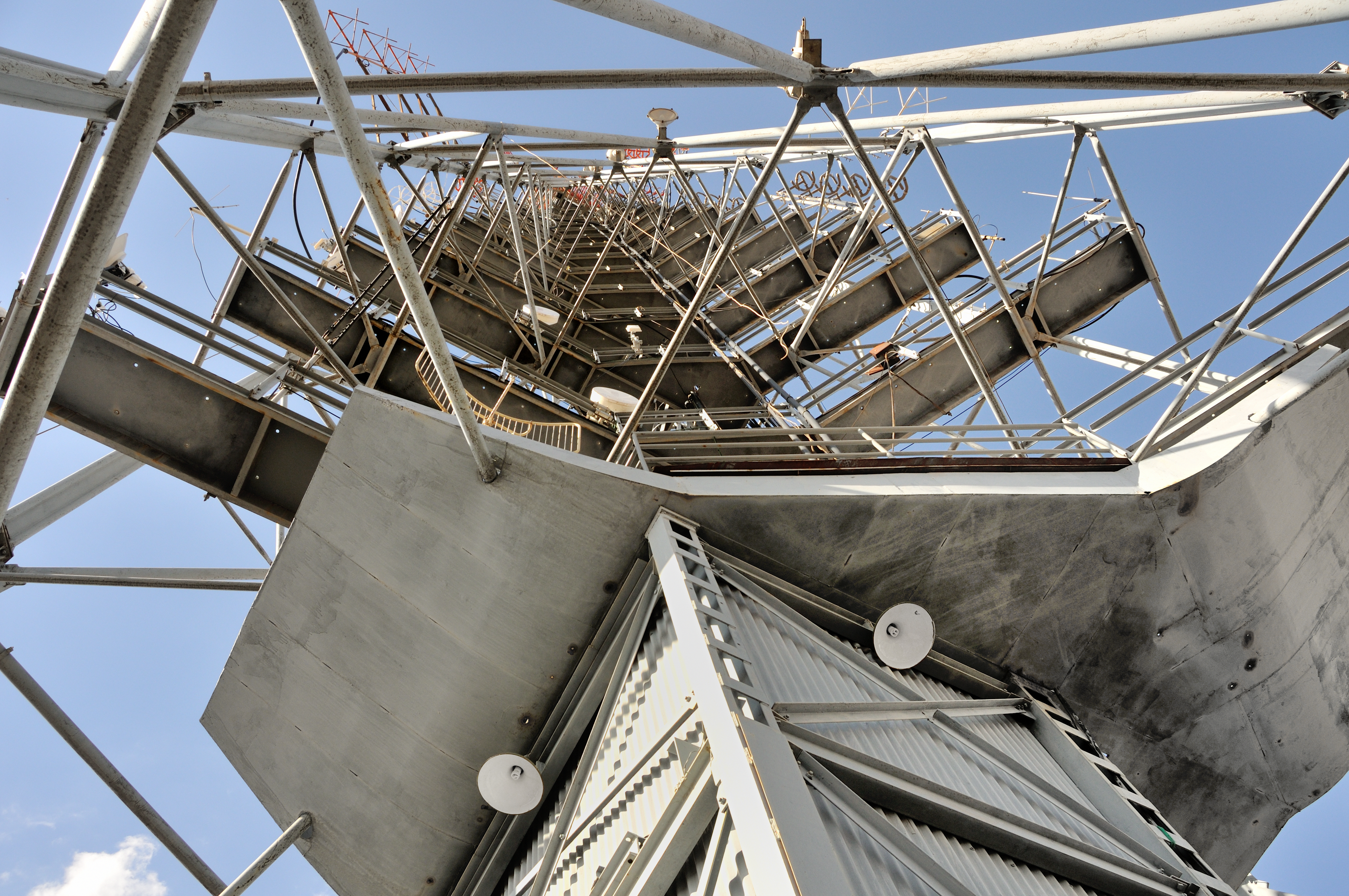 Television Tower in Brasilia, Brazil.